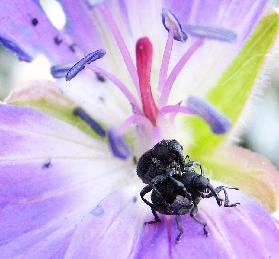 Zacladus geranii mating on a Geranium robertianum (Stankstorknebb) in Agdenes, Norway